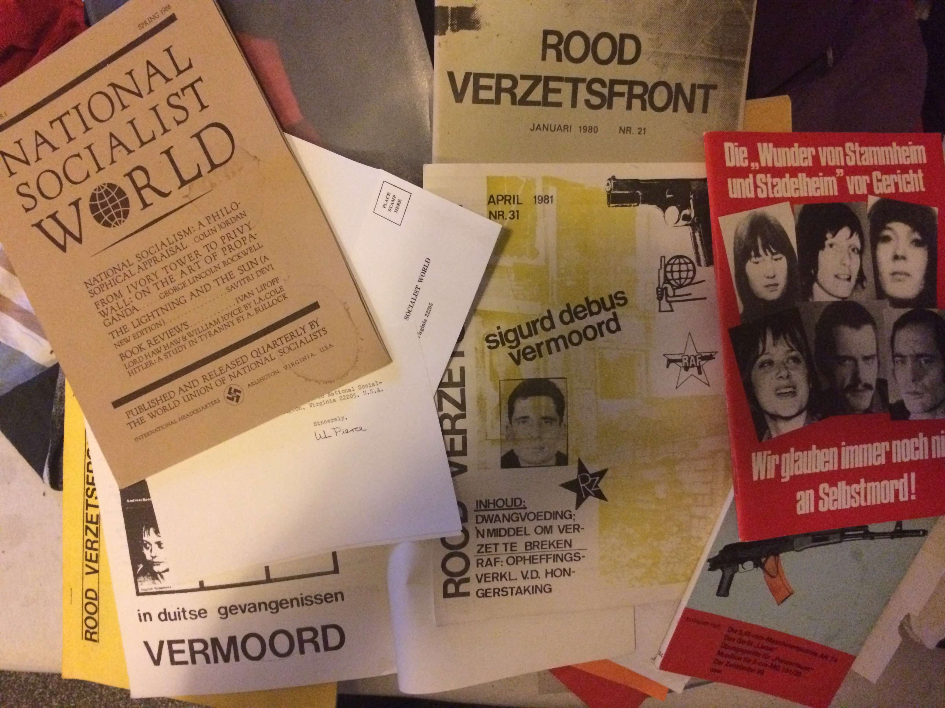 Several pieces unsorted propaganda from the '60s. Notable are the violent depictions of weapons on the Dutch ultra-left-wing 'support' groups "Rood Verzet" amongst other groups who became famous for their format way of complaining about the force-fed Germans that committed suicide for well disputed reasons. In order to leverage the amount of European propaganda, I added some material from that timeframe from a Right Wing fraction from the USA who issued this first printed piece of the "National Socialist world" dated spring 1966. Dr. William Luther Pierce, who edited (arrow of time) the Savitri Davi article, Ms. Devi was known for her arrestment in Germany shortly after WW2, Pierce probably made a reference to her work in "The Turner Diaries" - The crowd that attacked a cat, absurd.